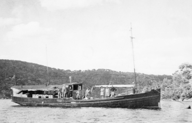 AWM Caption: DARWIN, NT. MV KRAIT, LENGTH 70' DIESEL ENGINED, SPEED 6 1/2 KNOTS, RANGE 8000 MILES. FORMERLY THE PROPERTY OF A JAPANESE FISHING FIRM IN SINGAPORE. AFTER THE FALL OF SINGAPORE, SHE WAS EMPLOYED IN THE RESCUE OF EVACUEES FROM SHIPS WHICH HAD BEEN SUNK ALONG THE EAST COAST OF SUMATRA. SOME 1100 PEOPLE WERE TRANSPORTED IN THE KRAIT DURING THIS PERIOD. WHEN THE NETHERLAND EAST INDIES SURRENDERED THE KRAIT WAS SAILED TO INDIA BY A CIVILIAN, MR. W.R. REYNOLDS. IT EVENTUALLY REACHED AUSTRALIA AND, BECAUSE IT WAS A FORMER JAPANESE VESSEL, IT WAS SELECTED TO TRANSPORT MEMBERS OF OPERATION JAYWICK, CONDUCTED BY THE Z SPECIAL UNIT, AUSTRALIAN SERVICES RECONNAISSANCE DEPARTMENT, INTO JAPANESE OCCUPIED WATERS NEAR SINGAPORE, IN ORDER TO ENABLE THEM TO CARRY OUT THE HIGHLY SUCCESSFUL RAID ON SHIPPING IN THE HARBOUR.